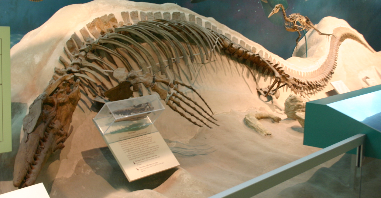 Tylosaurus proriger specimen which was found with a plesiosaur in its stomach. Exhibited in Smithsonian National Museum of Natural History: Hall of Fossils